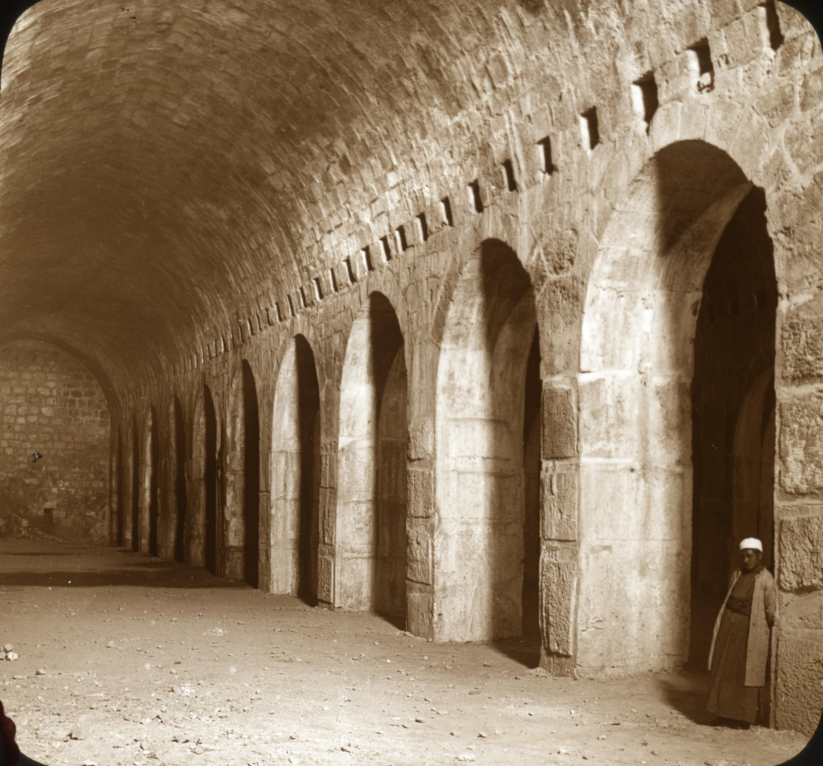 Image Description from historic lecture booklet: "When the Temple was built, the summit of Mount Moriah was found not large enough for the building and its courts. The architects adopted the plan of building out the platform and resting it upon great walls reared up form the side of the mountain. we can descend by a series of steps into theses wast substructures which are underneath the open court south of the Dome of the Rock. There are thirteen of these great vaults, including an area of 273 feet from east to wast, and nearly 300 feet from north to south. They are called "Solomon's Stables" from a tradition of their use in ancient times. On the lower courses of the pillars a smooth band or drafting may be noticed. This is characteristic of very ancient work, and may indicate that the foundations of these structures were laid by the Tyrian builders of Solomon's Temple. As we look upward to these arched roofs. let us remember that above them is the platform of the Temple area." Original Collection: Visual Instruction Department Lantern Slides Item Number: P217:set 013 031 You can find this image by searching for the item number by clicking here. Want more? You can find more digital resources online. We're happy for you to share this digital image within the spirit of The Commons; however, certain restrictions on high quality reproductions of the original physical version may apply. To read more about what “no known restrictions” means, please visit the Special Collections & Archives website, or contact staff at the OSU Special Collections & Archives Research Center for details.